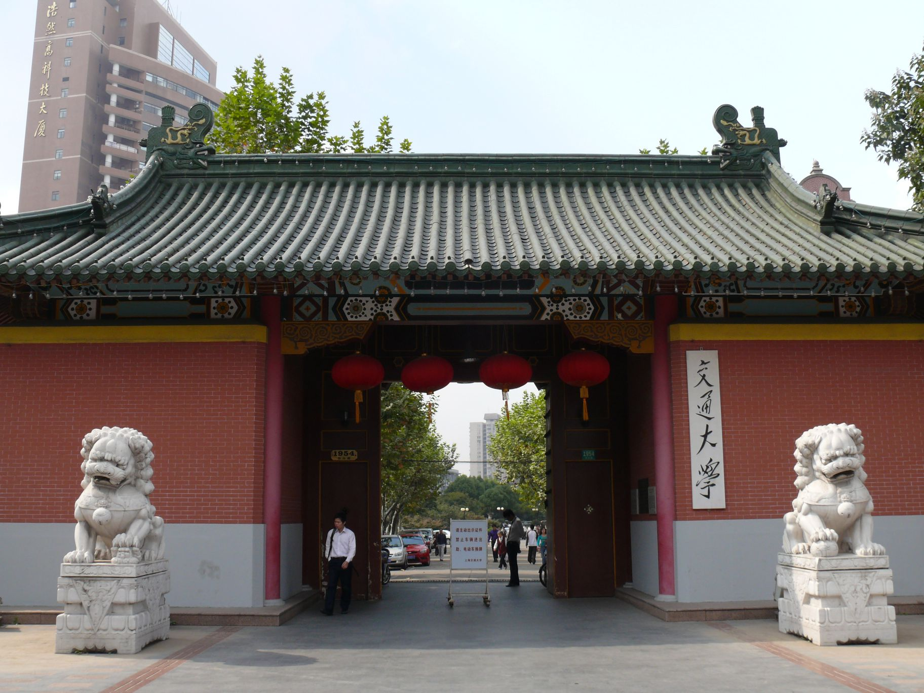 Entrance gate of Shanghai Jiao Tong University